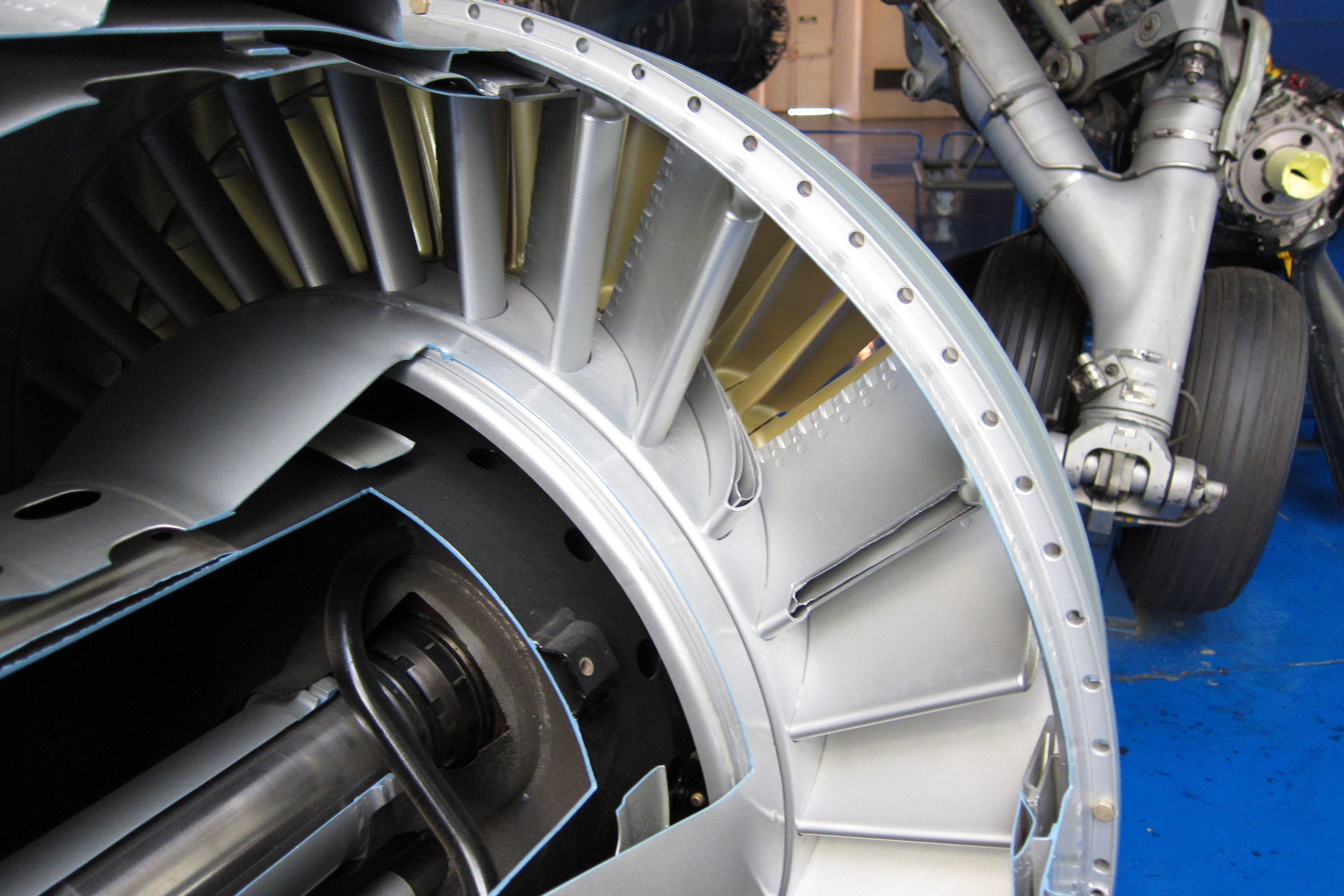 The first turbine stator stage (inlet guide vanes) of an Atar turbojet. Air flow was from the viewer towards the background of the photo. Two blades are sectioned so that the internal structure, permitting air cooling, can be observed.